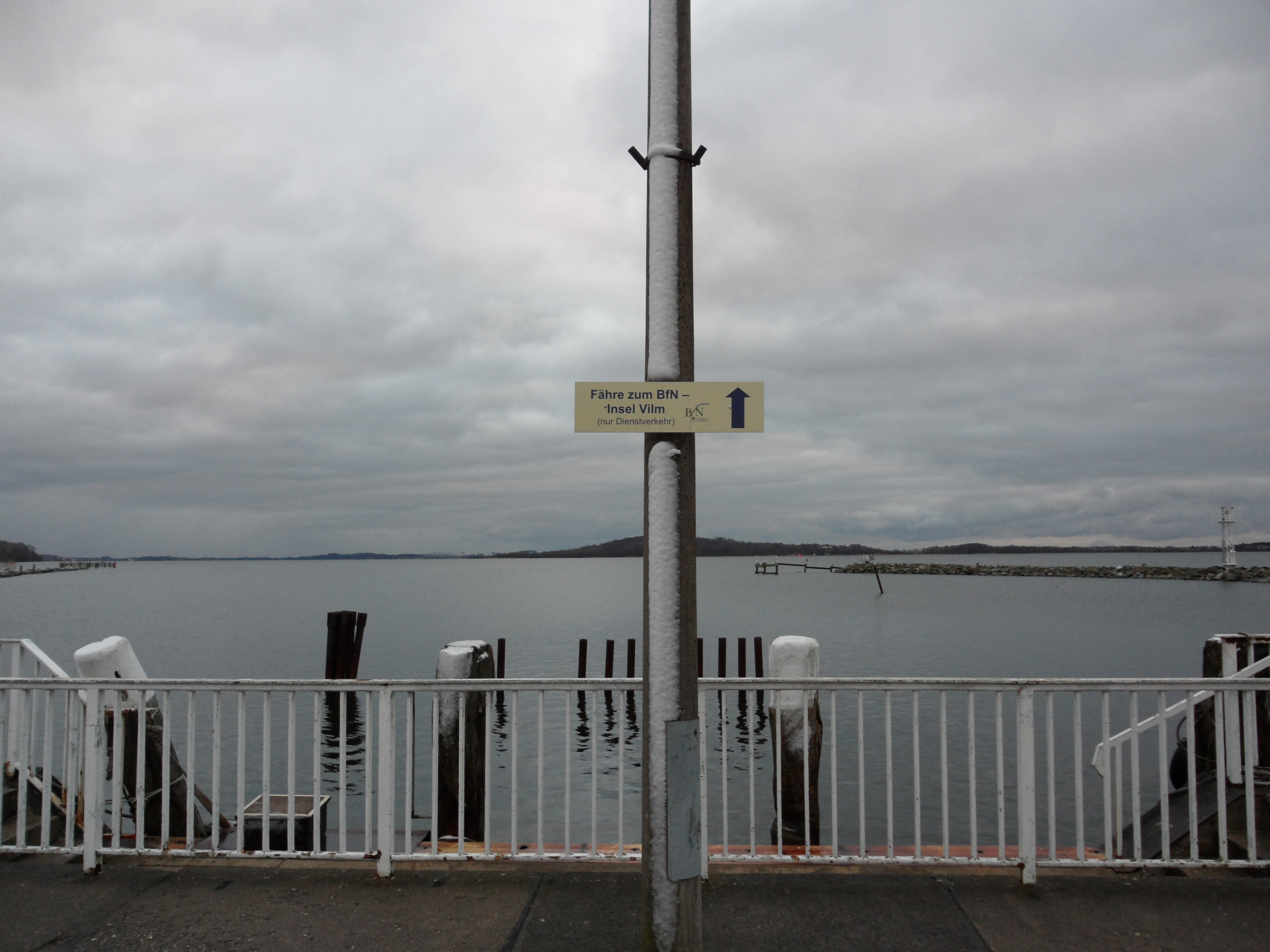 Pierhead in Lauterbach for transfer to Bundesamt für Naturschutz (BfN) on island Vilm. Vilm is visible in the background